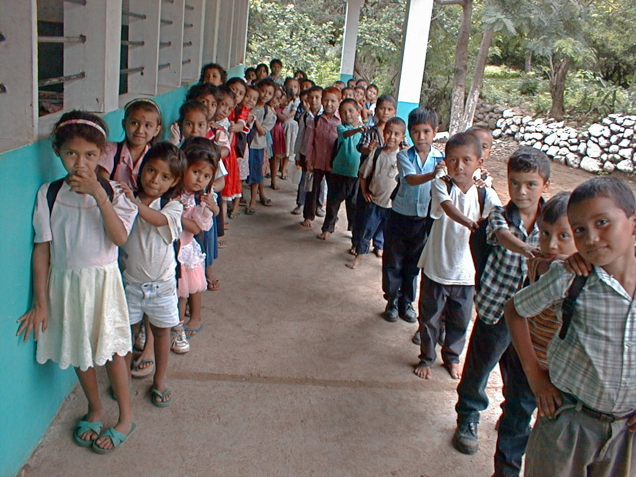 Students lined up outside their new school as provided by the ' Village' project — San Ramon, Choluteca. Camera Info: OLYMPUS SR83 Digital Camera, F-stop 2.8, Exposure 1/155 Create Date: 1999:09:02 14:10:38 Contact creator at - Page also was a link called "San Ramon, Choluteca Honduras: 1999 first ' Village'" to access the full WEB collection.